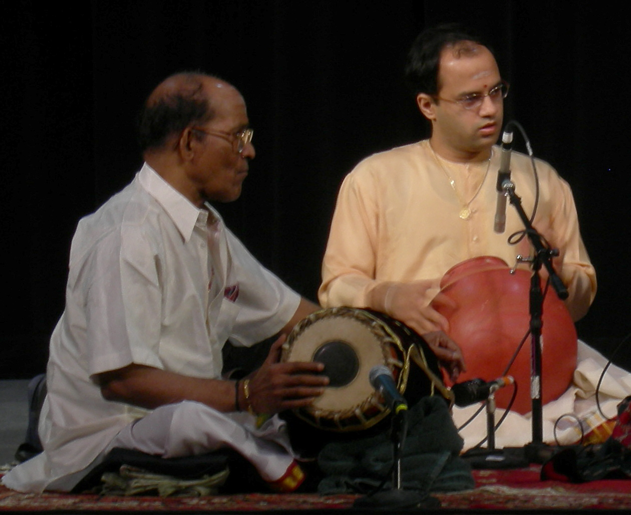 South Indian (Carnatic) musical performance. Guruvayur Dorai, mridangam, and Ravi Balasubramanian, ghatam, accompanying Ravikiran, navachitravina (not shown). Photo taken at Interlake High School, Bellevue, Washington, during a performance in the Ragamala series (Greater Seattle).